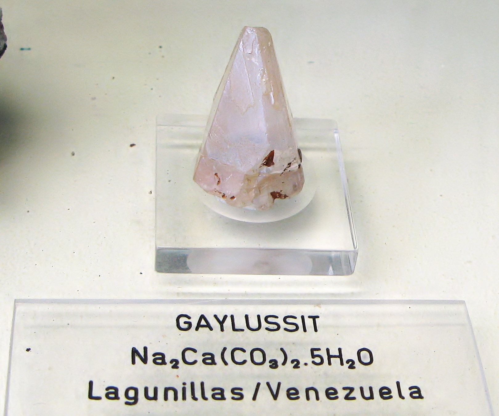 Gaylussite - Locality: Lagunillas, Venezuela - Exposed in the Mineralogical Museum, Bonn, Germany